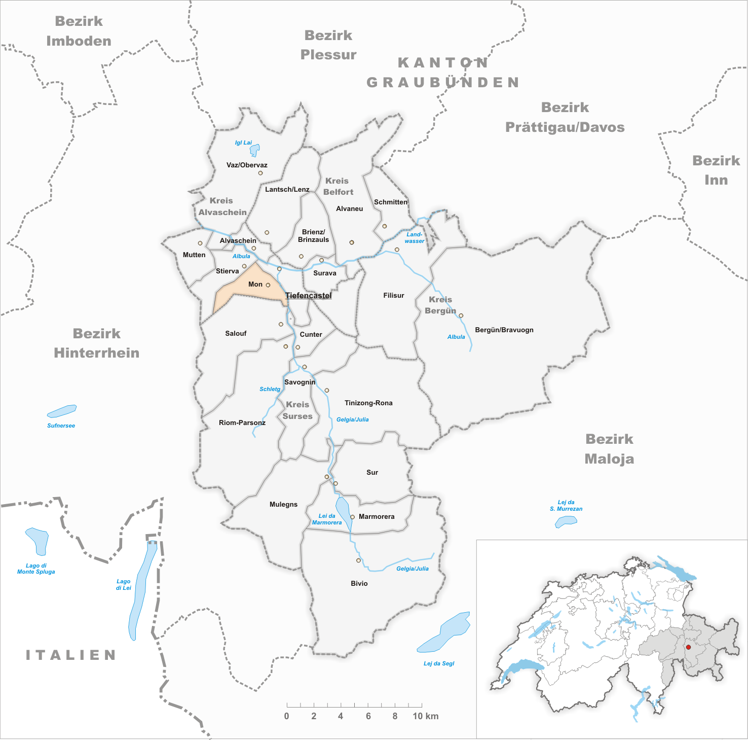 Municipality Mon